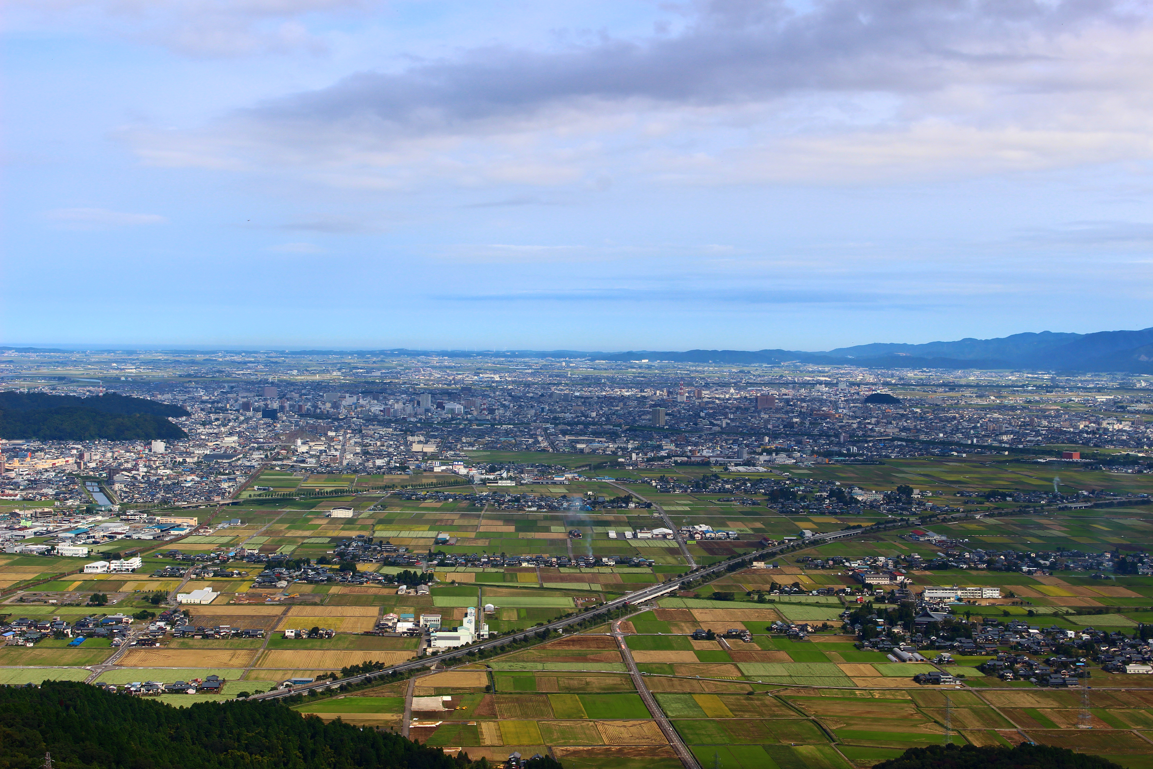 Fukui Plain as seen from the south. Shot at Mount Monju.